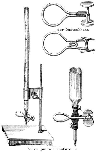 Pinch cock burette after Karl Friedrich Mohr